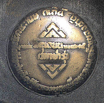 24 June 1932 Rivet